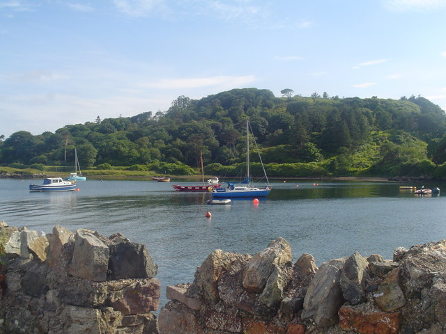 Small Boat Moorings, Stornoway Harbour. Viewed from Cuddy Point with Lews Castle Grounds in the background.